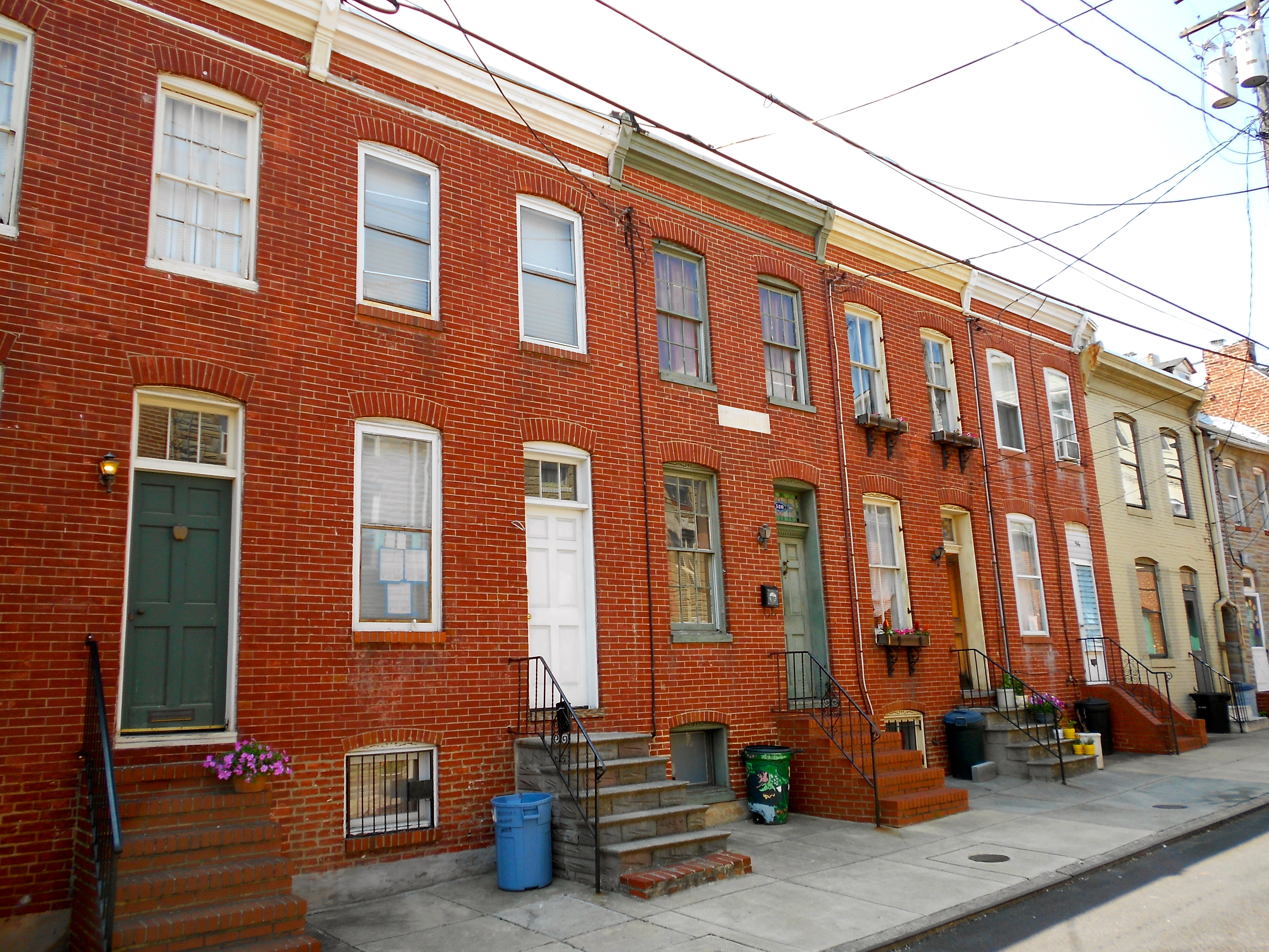 Douglass Row in Baltimore., built by Frederick Douglass in 1890s Listed on the NRHP